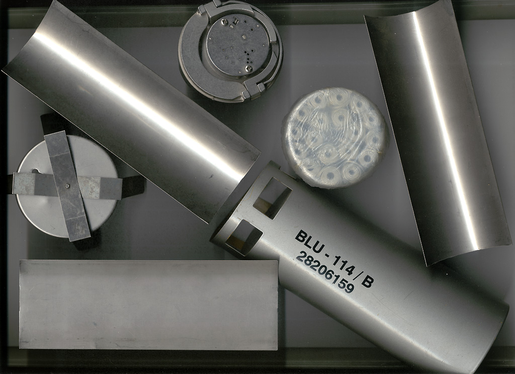 Photo of the BLU-114/B "Soft-Bomb", a graphite bomb.